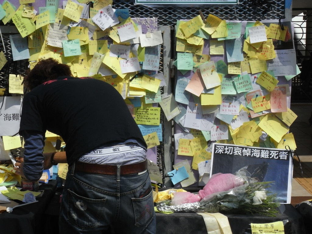 Hong Kong Federation of Students 2012 at Lamma Island pier of Central, Hong Kong